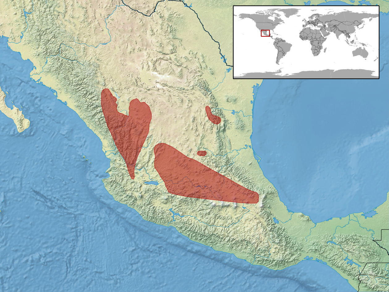 geographic distribution of Plestiodon lynxe